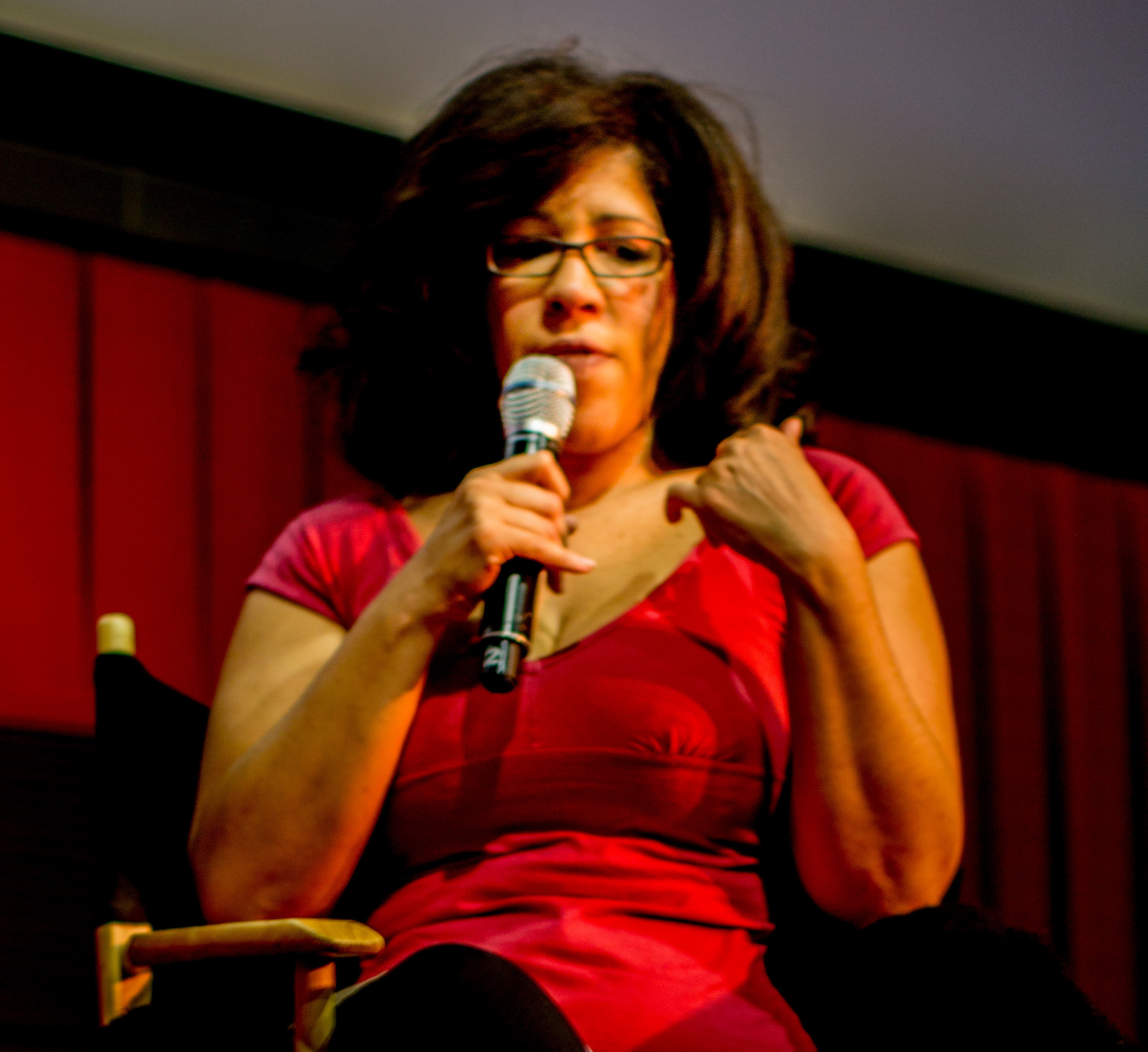 Rain Pryor at AJFF